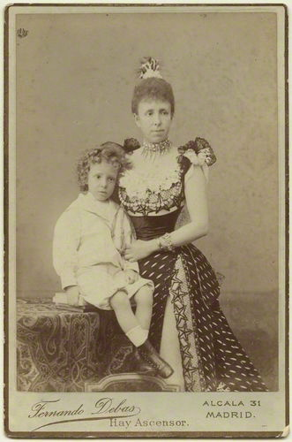 Alfonso XIII, King of Spain; María Cristina de Habsburgo-Lorena, Queen of Spain